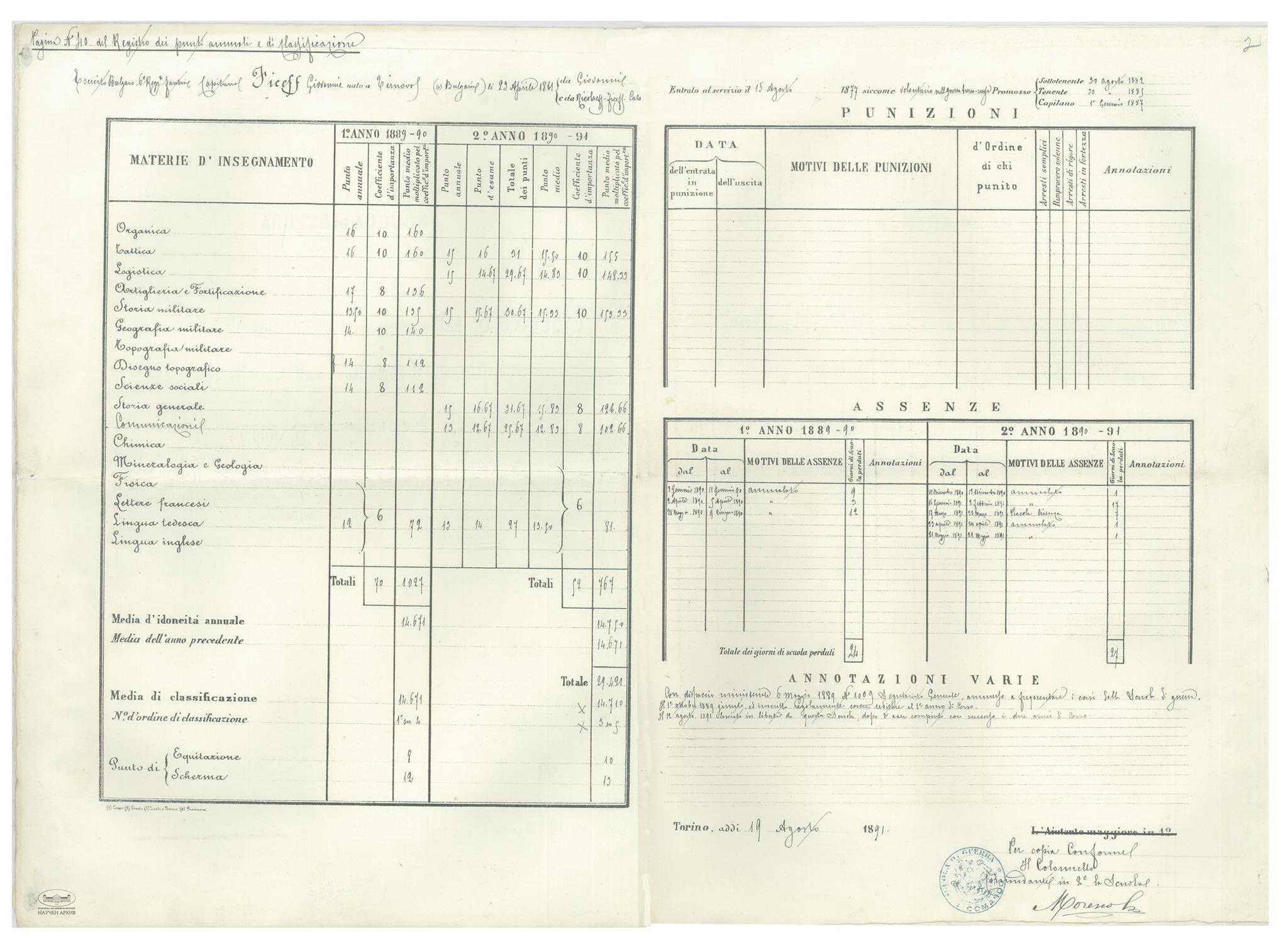 Diplom of Ivan Fichev from Scuala di Guerra